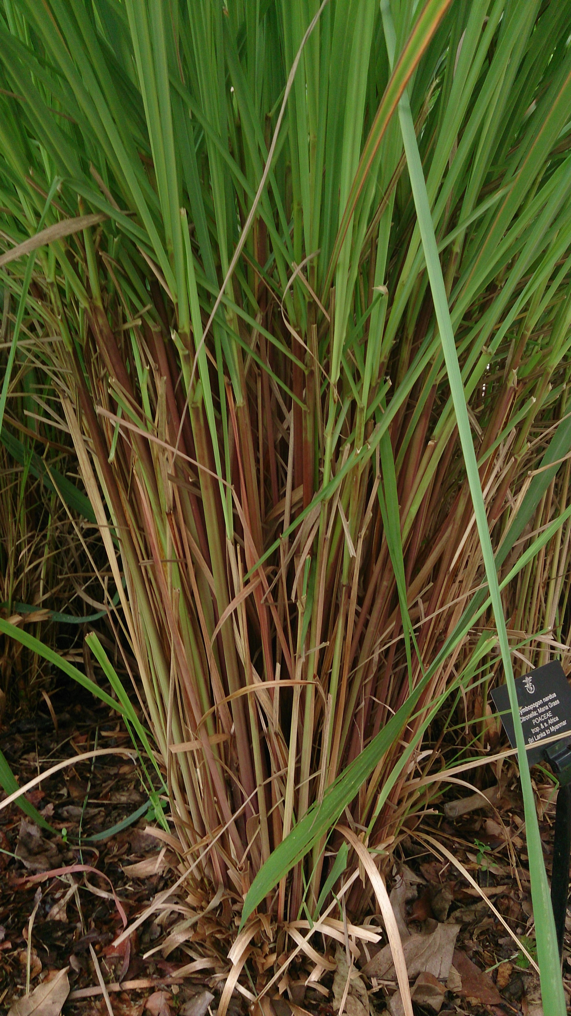 Cymbopogon nardus. Common names: Citronella. Mana Grass. Used in insect repellents.